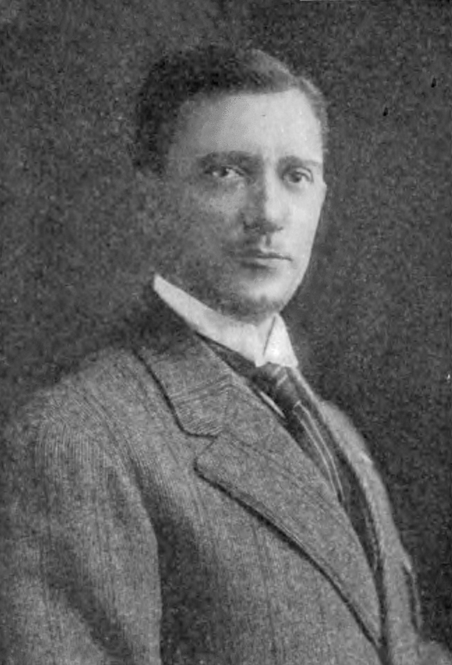 Carl C. Anderson, member of the United States House of Representatives from Fostoria, Ohio.